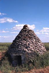 Dry stone hut located at Châteauneuf-sur-Cher, in the Cher département, France. Photo by Christian Lassure.